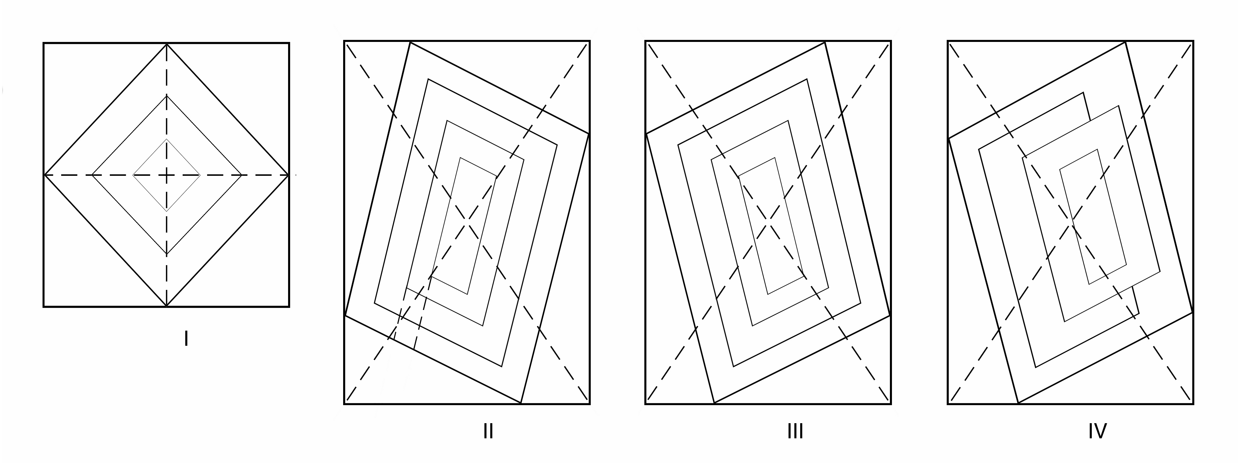 Albert Gleizes (after) 2. Simultaneous movements of rotation and translation of the plane